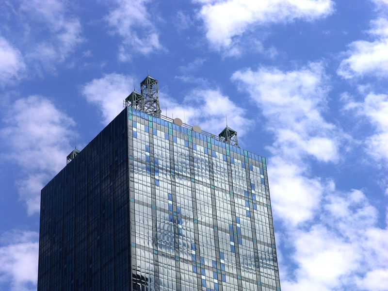 The top of Renaissance Tower, in downtown Dallas, Texas (USA)